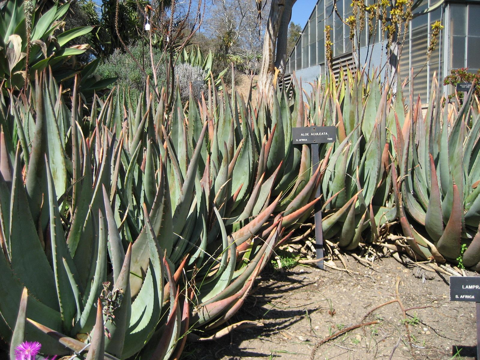 Photographed at Huntington Gardens (Los Angeles) in March